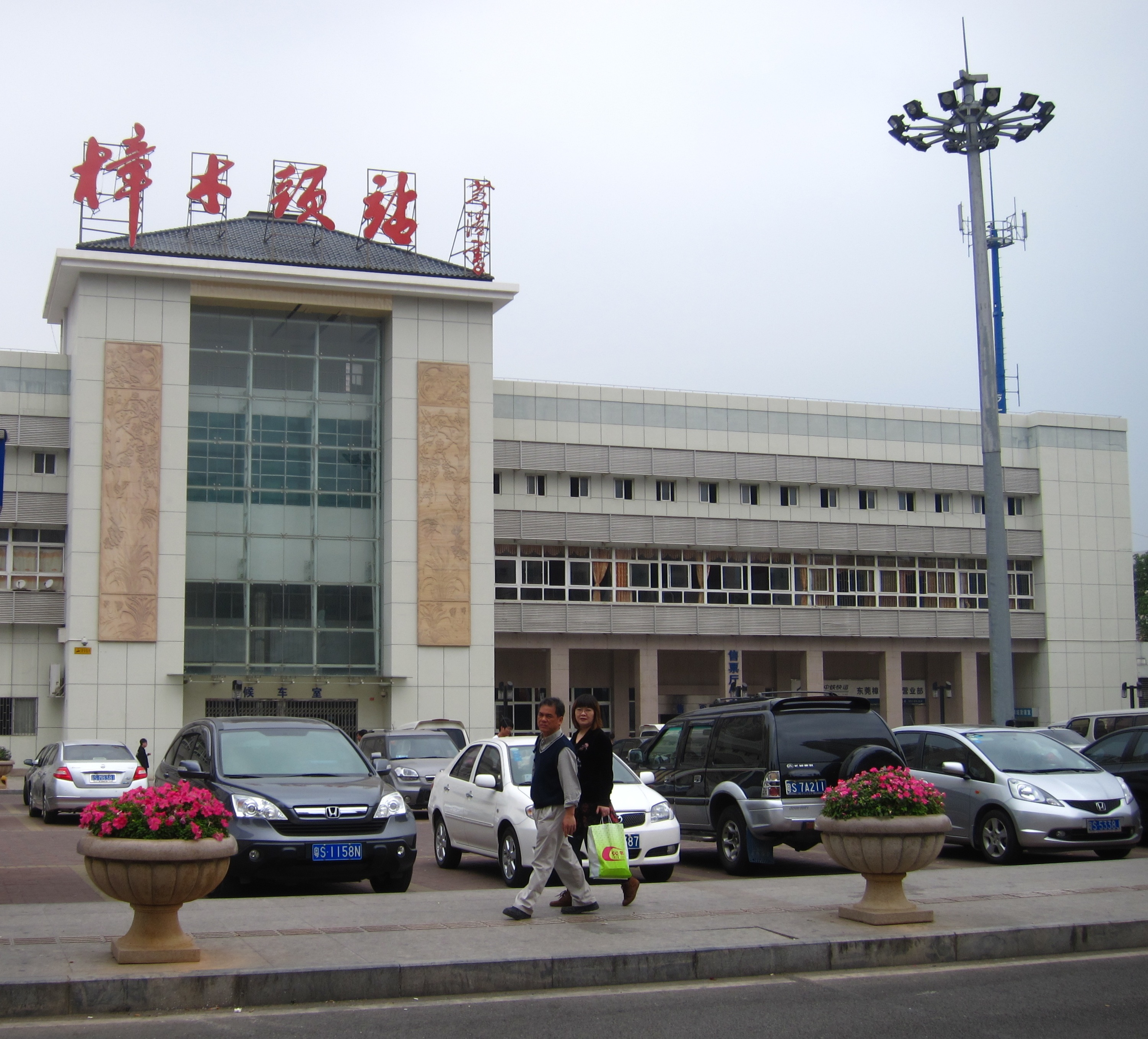 Zhangmutou Railway Station exterior